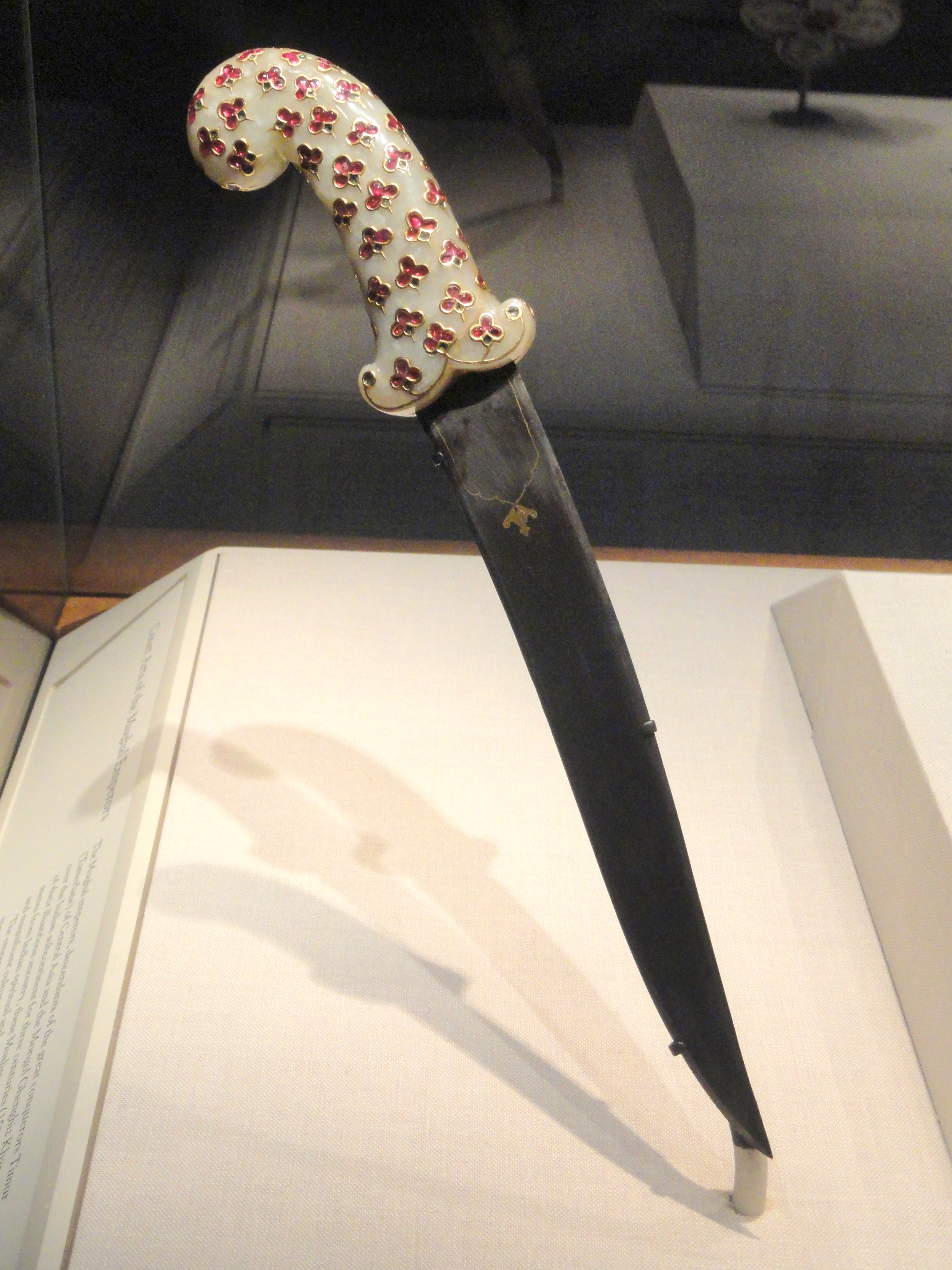 Exhibit in the Freer Gallery of Art, Washington, DC, USA. This artwork is old enough so that it is in the public domain.